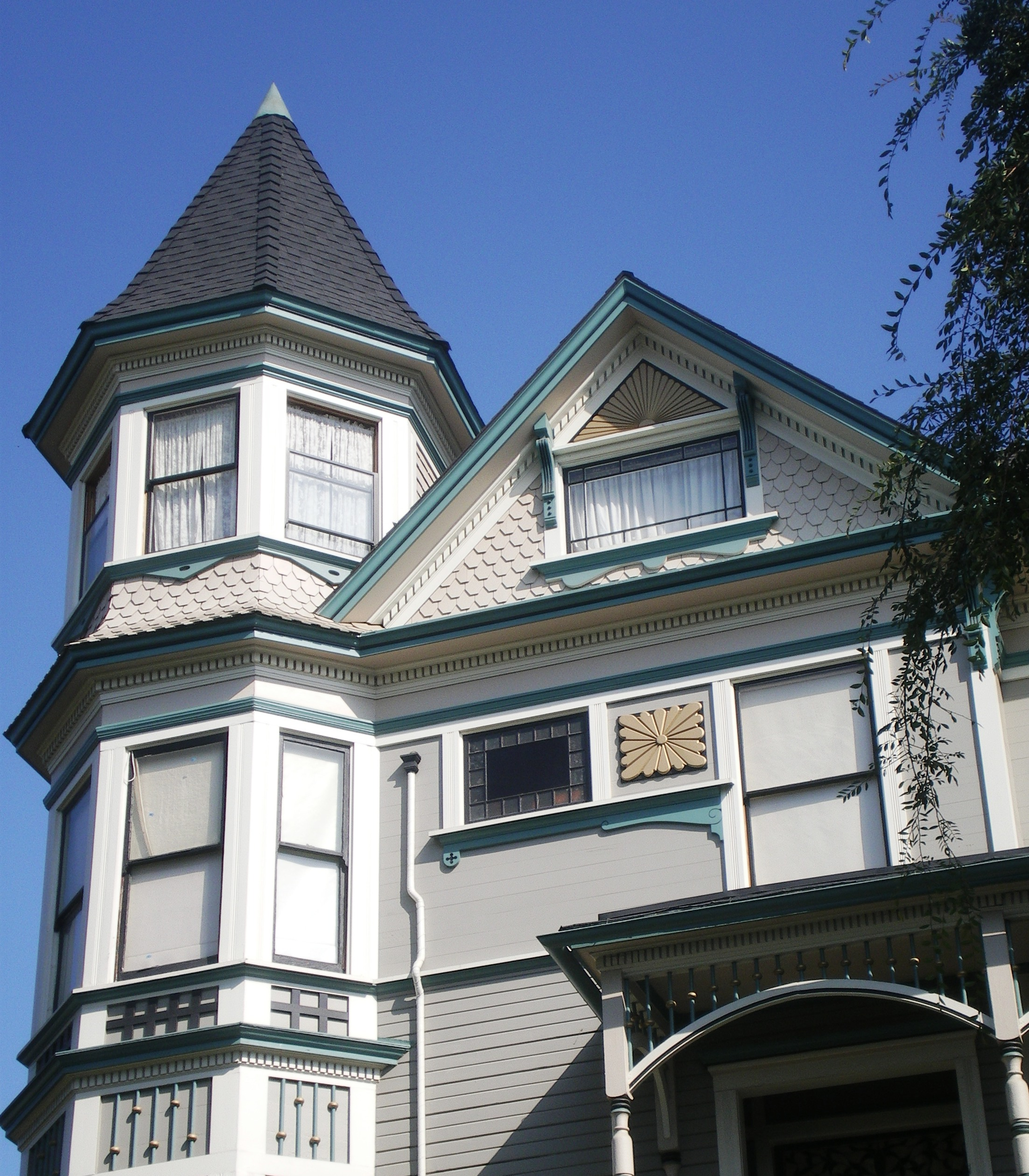 Closeup of front facade of Smith Estate, El Mio Street, Highland Park, Los Angeles, California